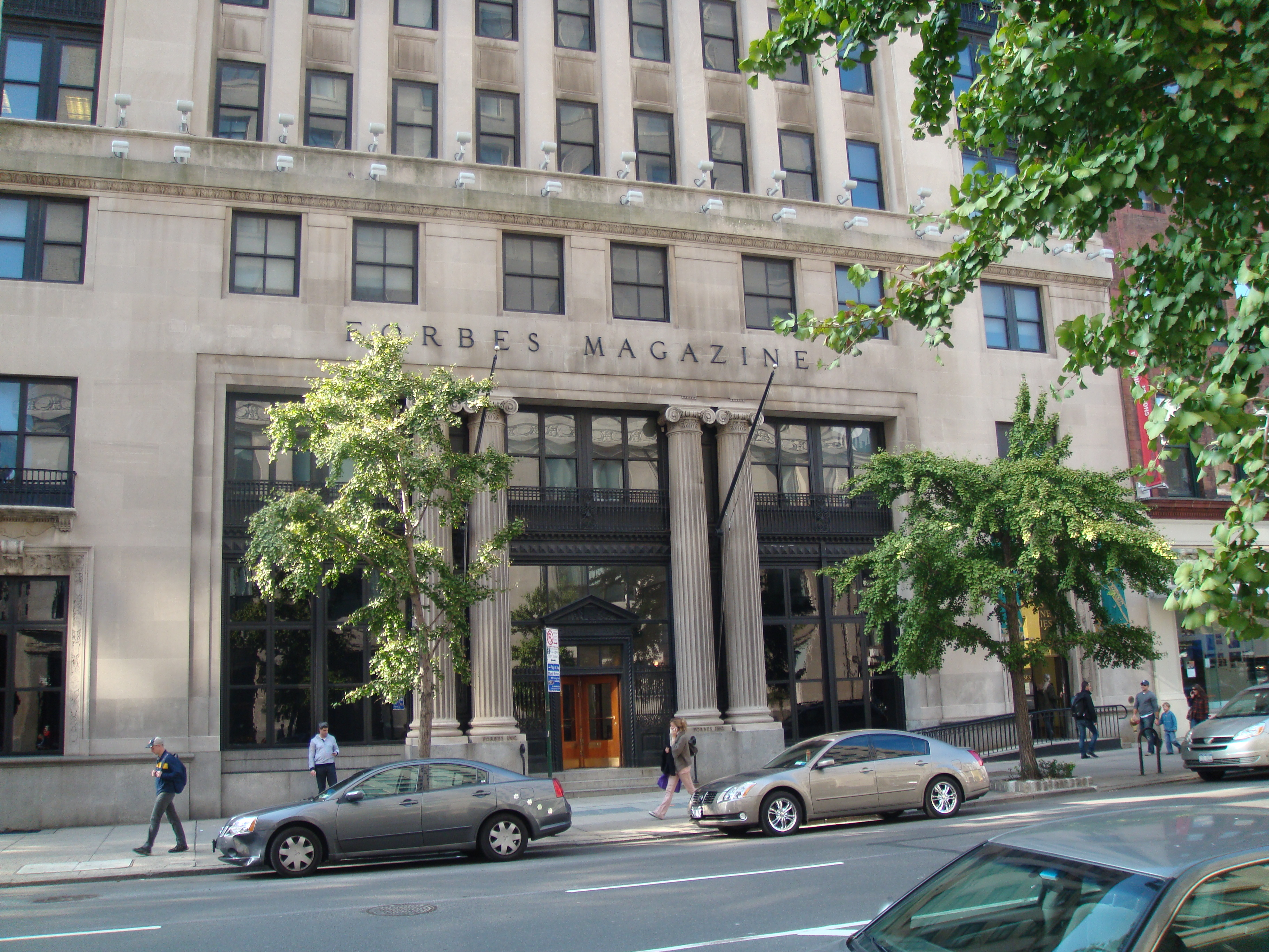 This photo is of Wikis Take Manhattan goal code F8, Forbes.